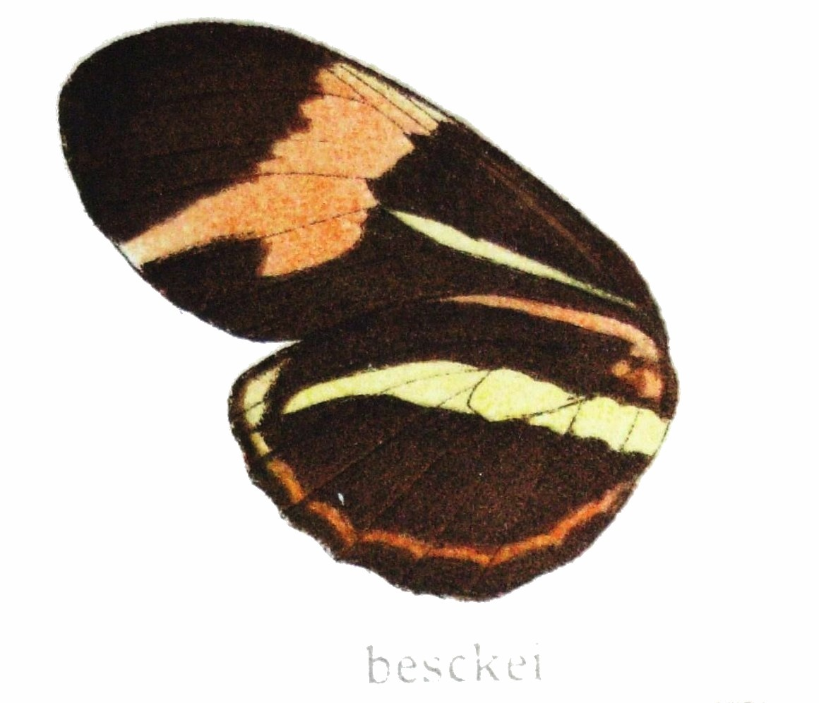 Heliconius besckei Ménétriés, 1857